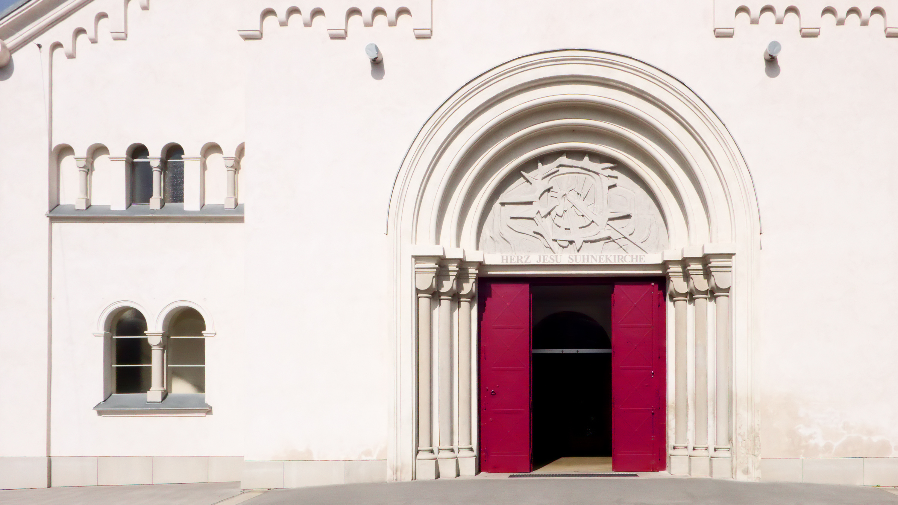 Herz-Jesu-Sühnekirche (Wien) in Vienna Hernals